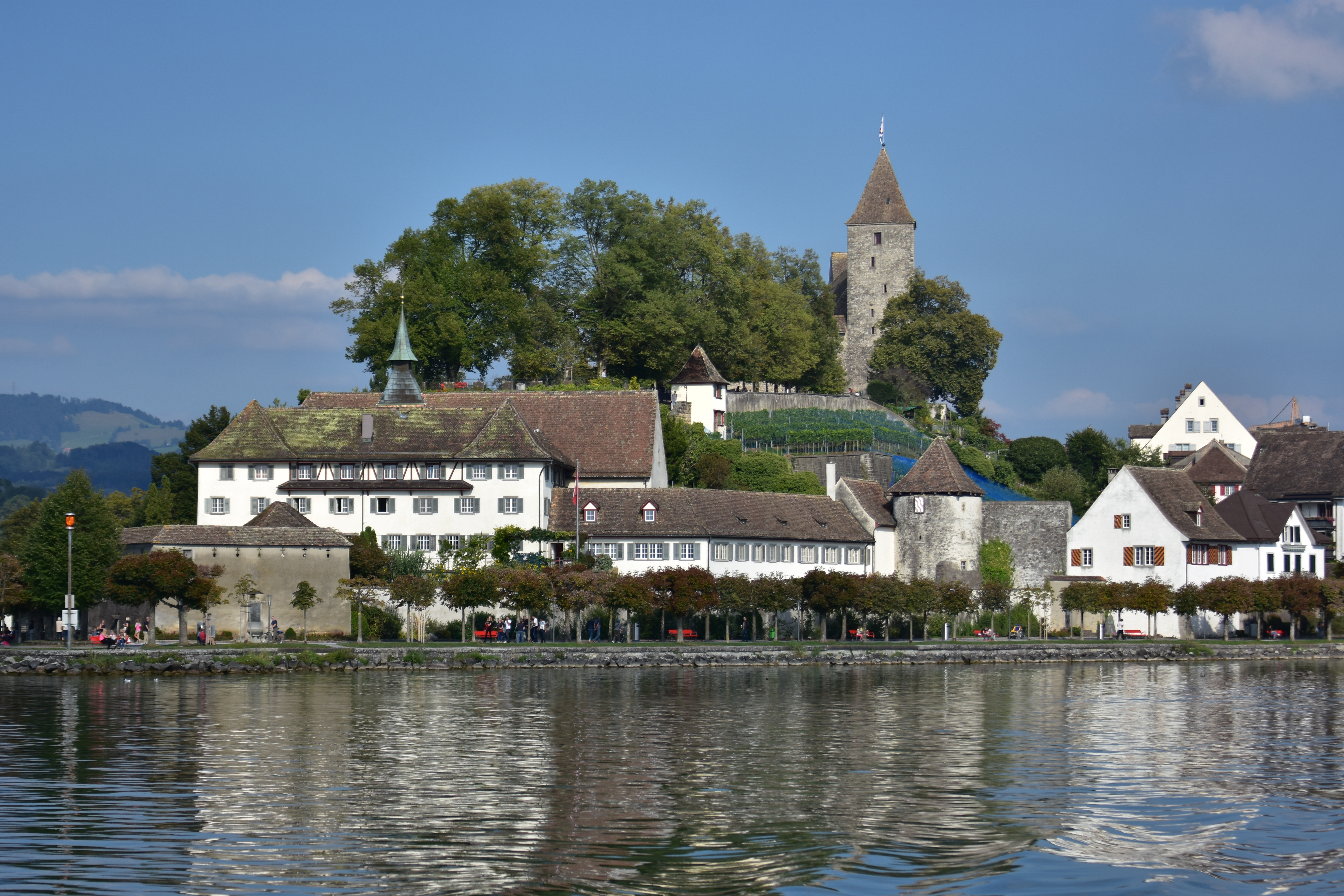 Rapperswil (Switzerland) : Lindenhof hill and the castle (Schloss), and on lakeshore the Einsiedlerhaus and Curti buildings, as seen from Zürichsee-Schiffahrtsgesellschaft (ZSG) ship MS Helvetia on Zürichsee in Switzerland